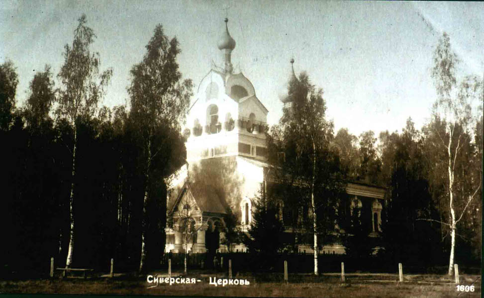 Belogorka (Siverskiy). St. Nicolas church